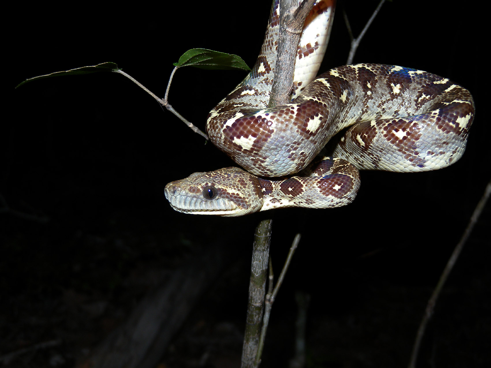 This juvenile Madagascar Tree Boa (Sanzinia madagascariensis) was photographed during a guided night walk in Kirindy Forest. Kirindy Forest is a privately managed conservation area, ca. 40 km north-east of the town of Morondava. Not part of the official National Park System of Madagascar, this 120 sqkm area was earlier operated as an experimental sustainable timber harvesting scheme. Fortunately, this has not left indelible scars and the site is now considered as one of finest remaining examples of endemic western dry deciduous forest.